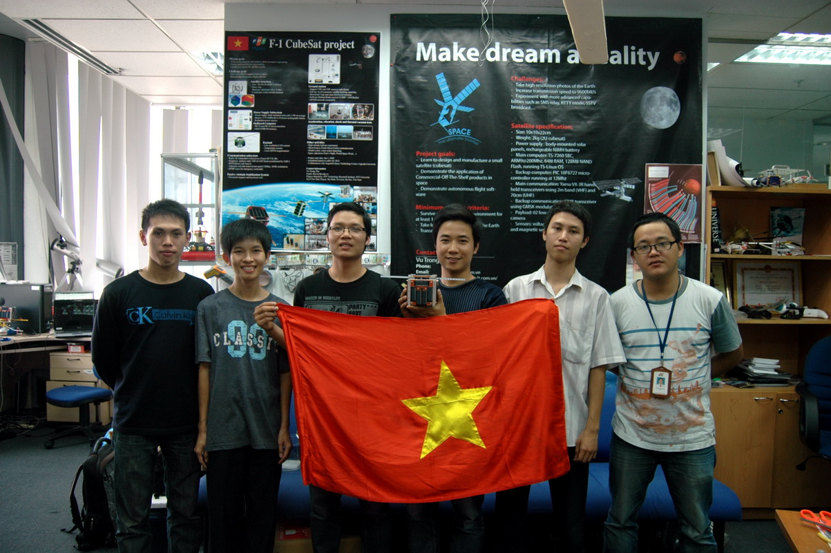 FSpace team with F-1 CubeSat